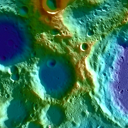 LROC WAC Colour Shaded Relief view